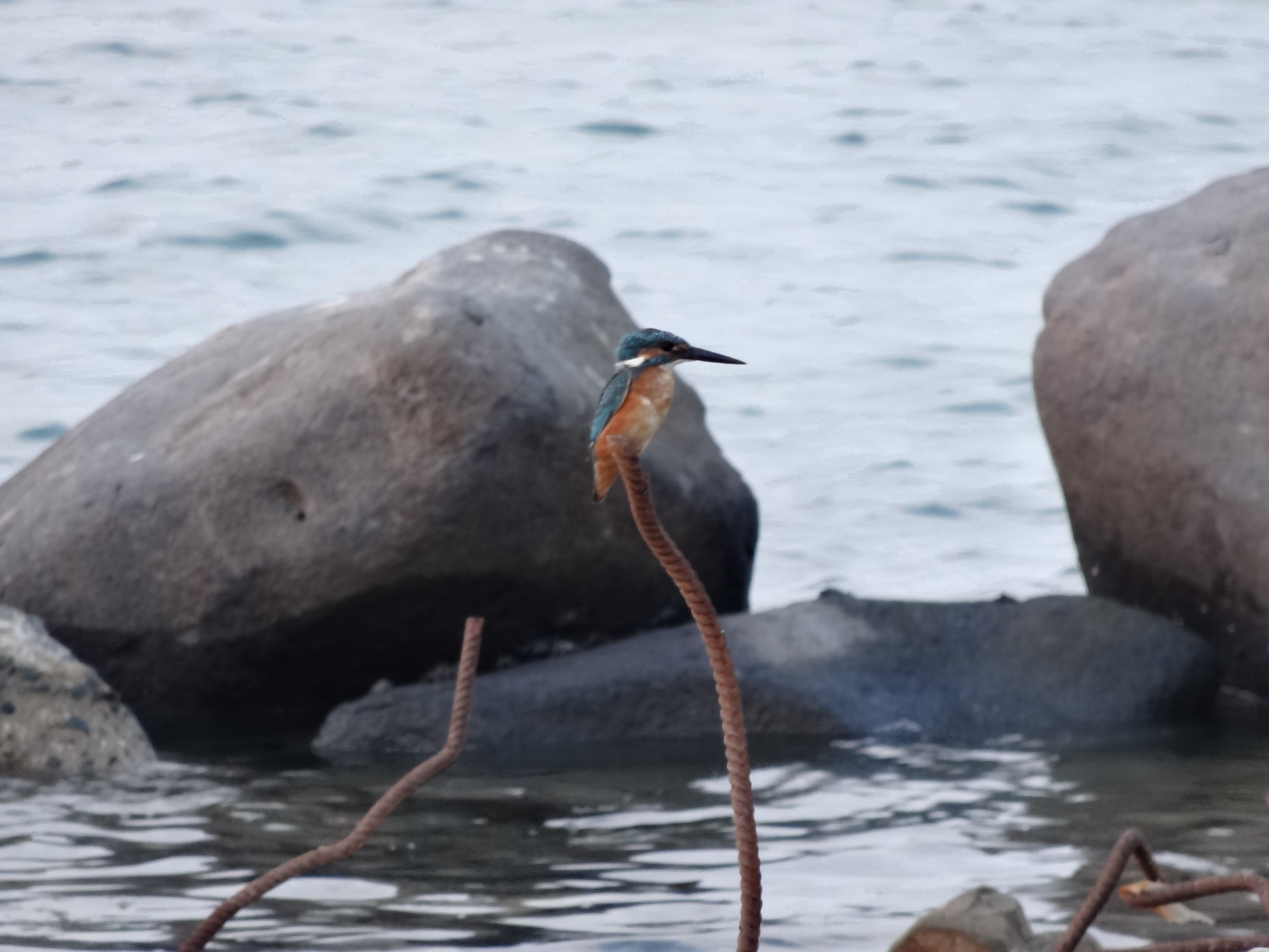 Saudi Kingfisher 3